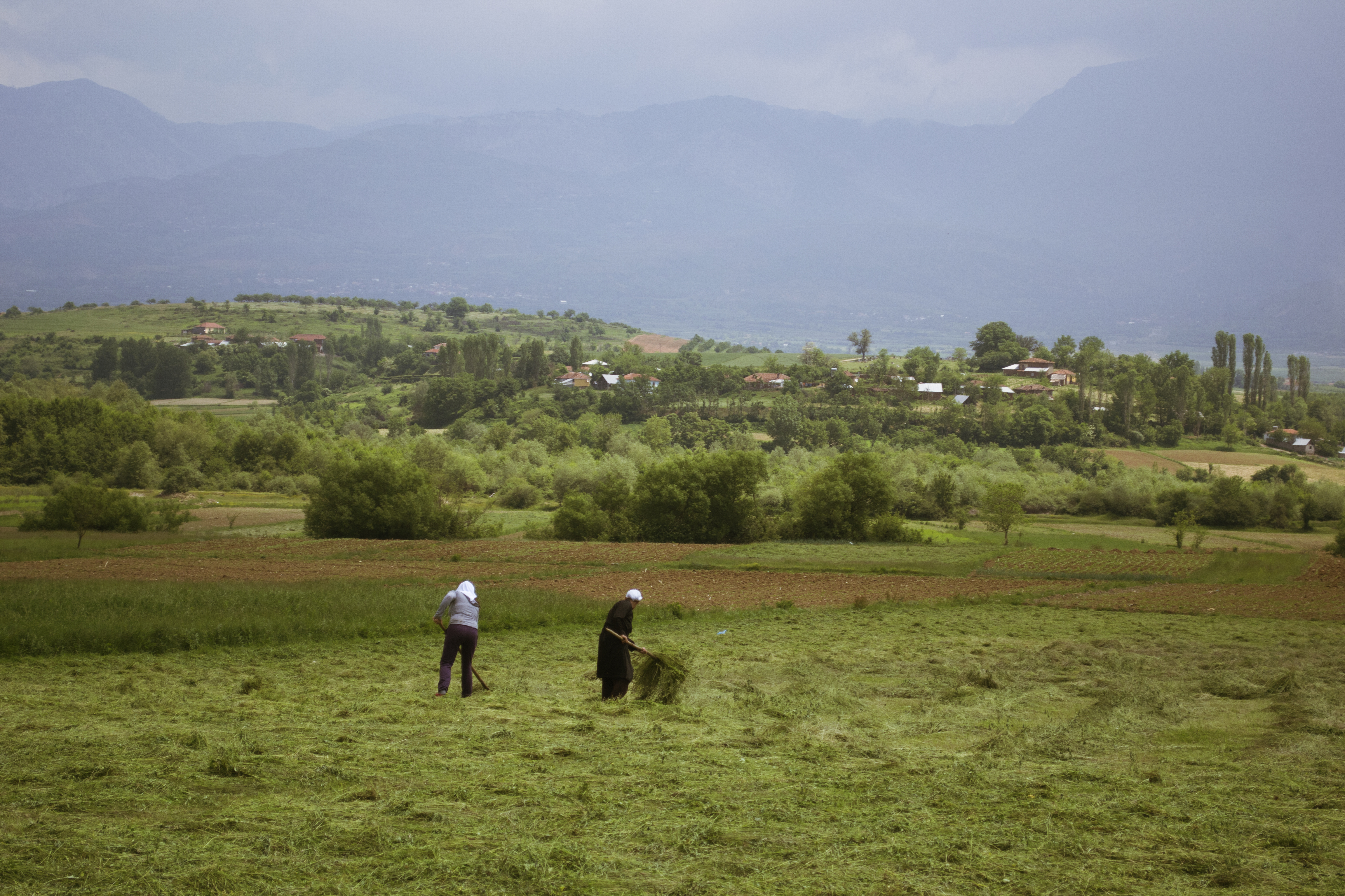 Women working in the fields outside of Peshkopi Albania, (on border with Macedonia)